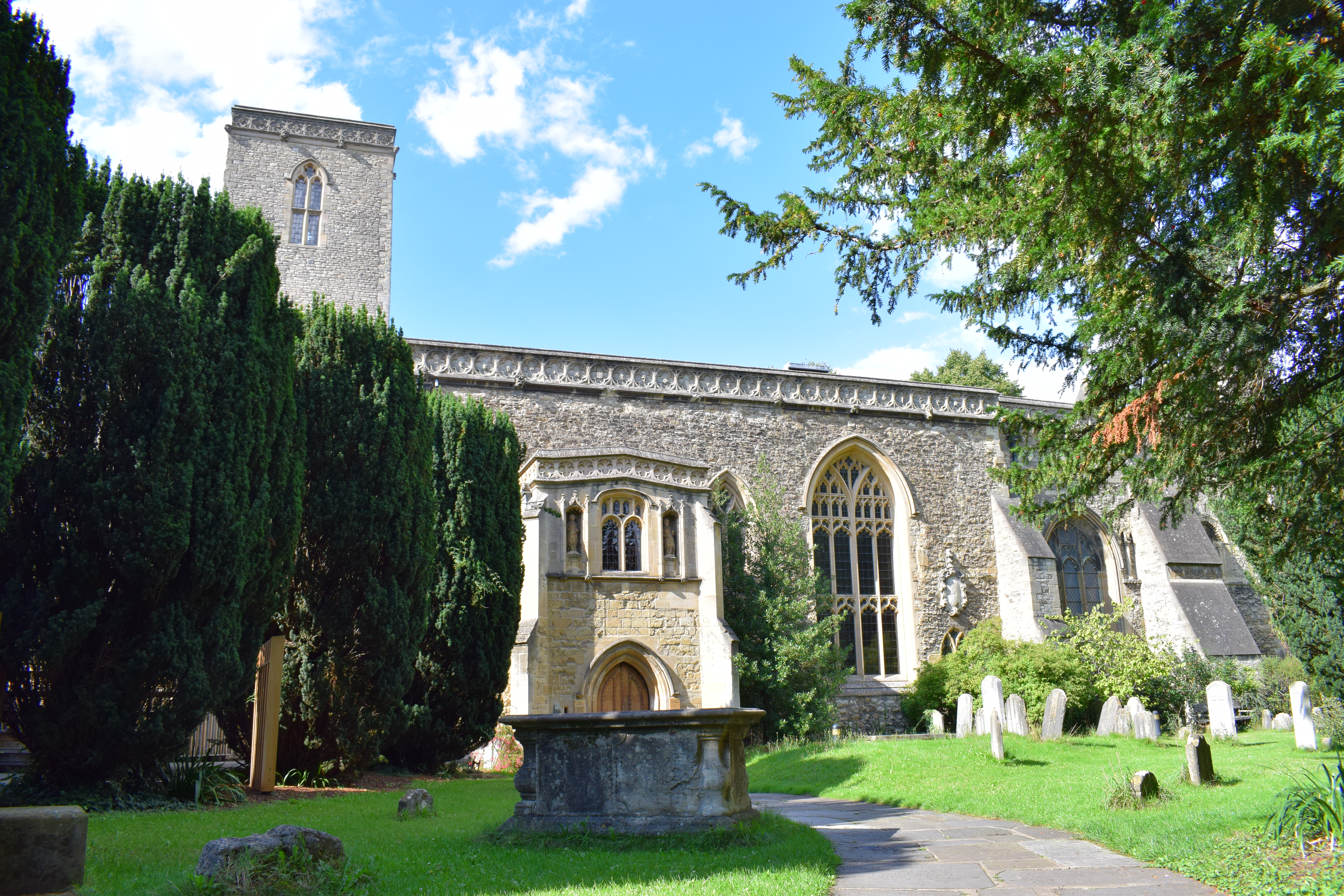 The church of St Peter-in-the-East, now the College Library of St Edmund Hall, University of Oxford. Seen in the Endeavour episode "Fugue".